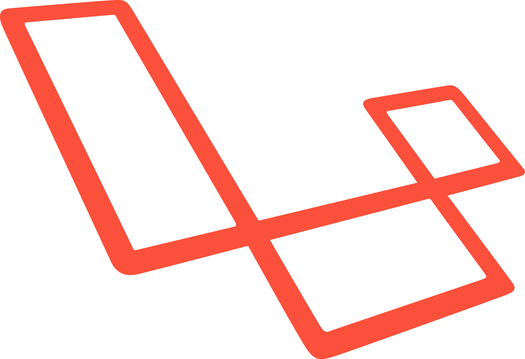 Logo of Laravel framework